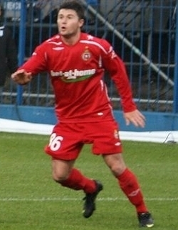 Piotr Ćwielong